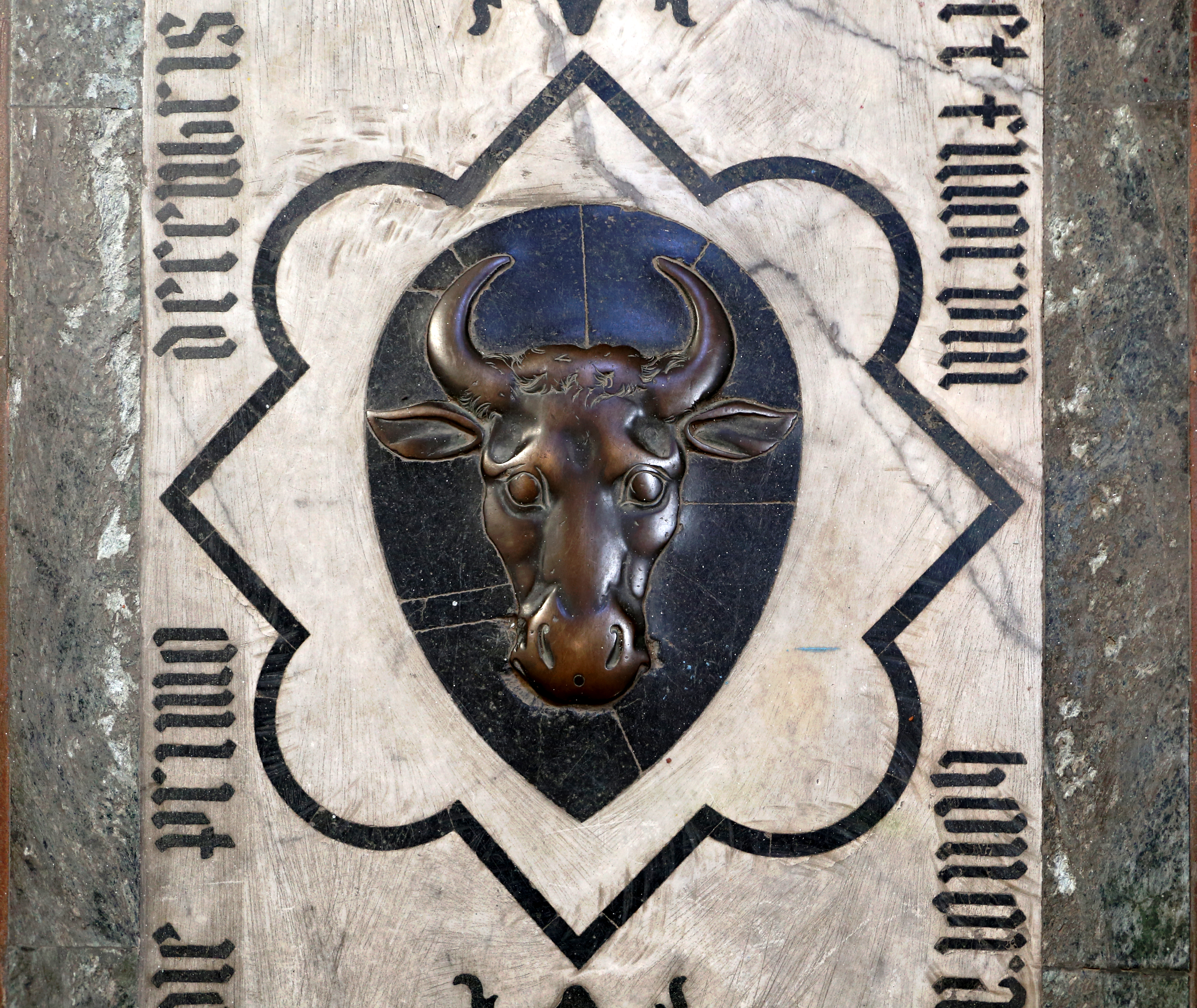 Ognissanti (Florence) - Interior